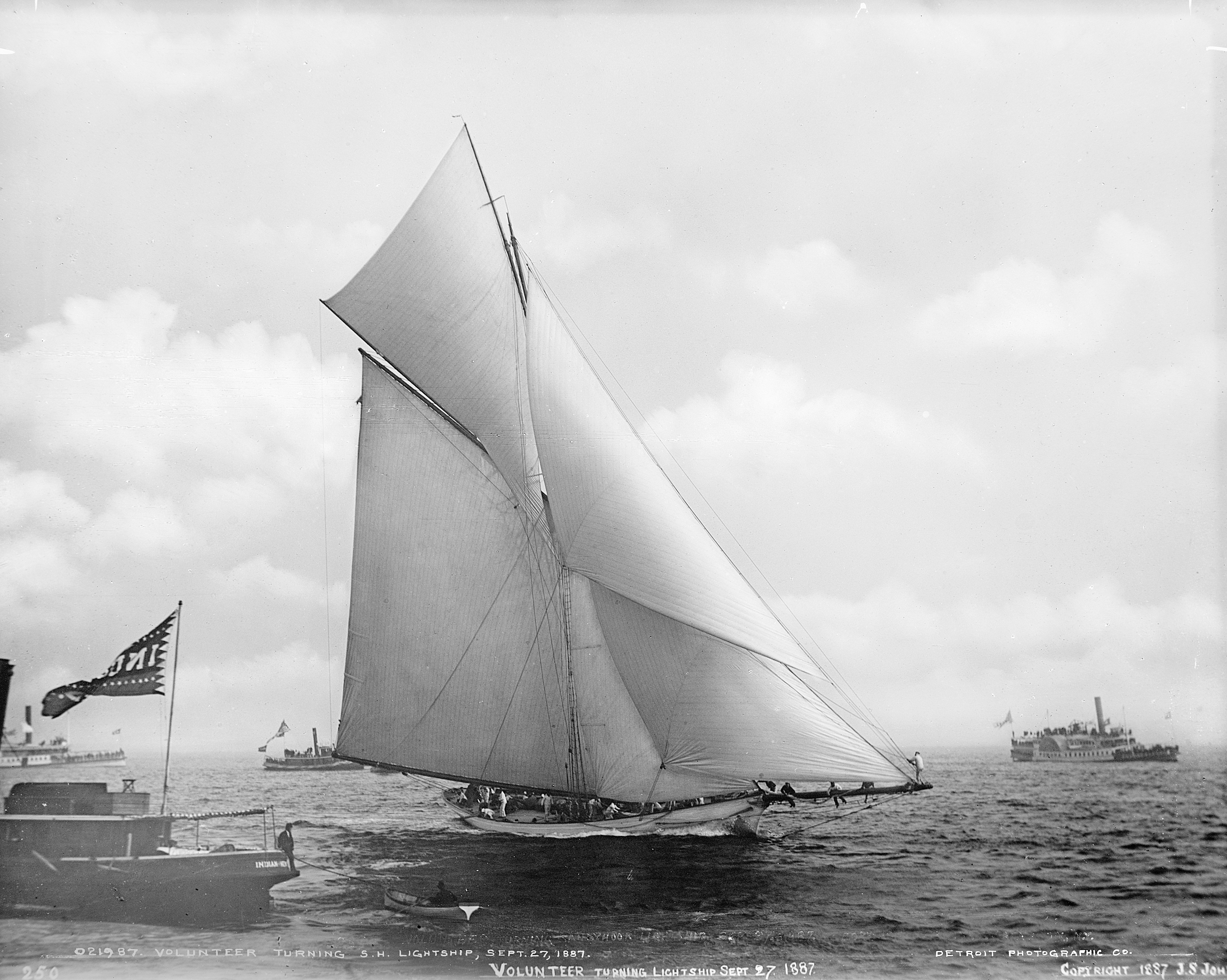 General Charles Jackson Paine's 85-foot sloop Volunteer turning Sandy Hook Lightship during the America's Cup race on Sept. 27, 1887.